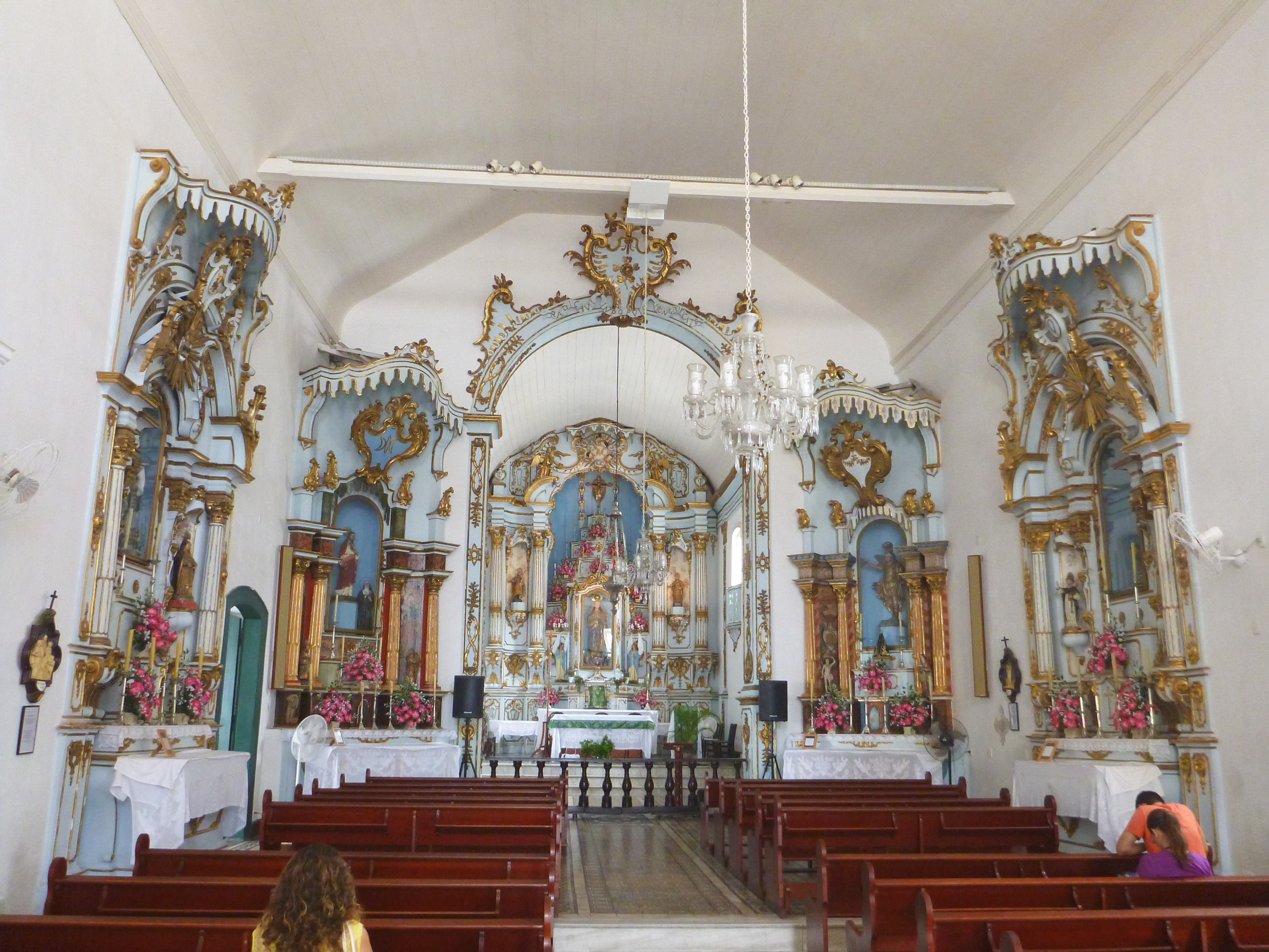 Inner view of the Matriz de Nossa Senhora da Conceição Church in Angra dos Reis, Brazil